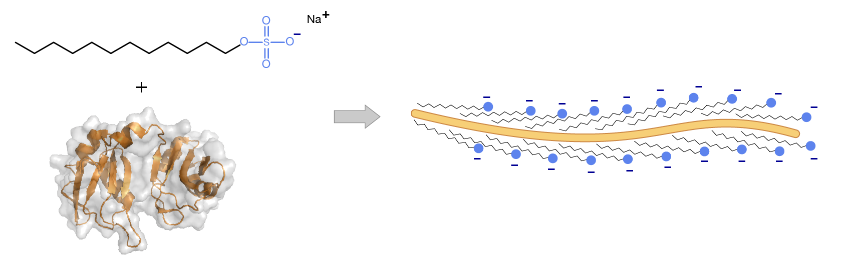 Denaturation of a protein (bottom-left) by sodium dodecyl sulphate (top-left). Detergent molecules coat the unfolded protein chain (right), which adopts a rod-like shape as a consequence of electrostatic repulsion. Negative charges contributed by SDS dominate the total charge of the aggregate and are used at the driving force in SDS gel electrophoresis.